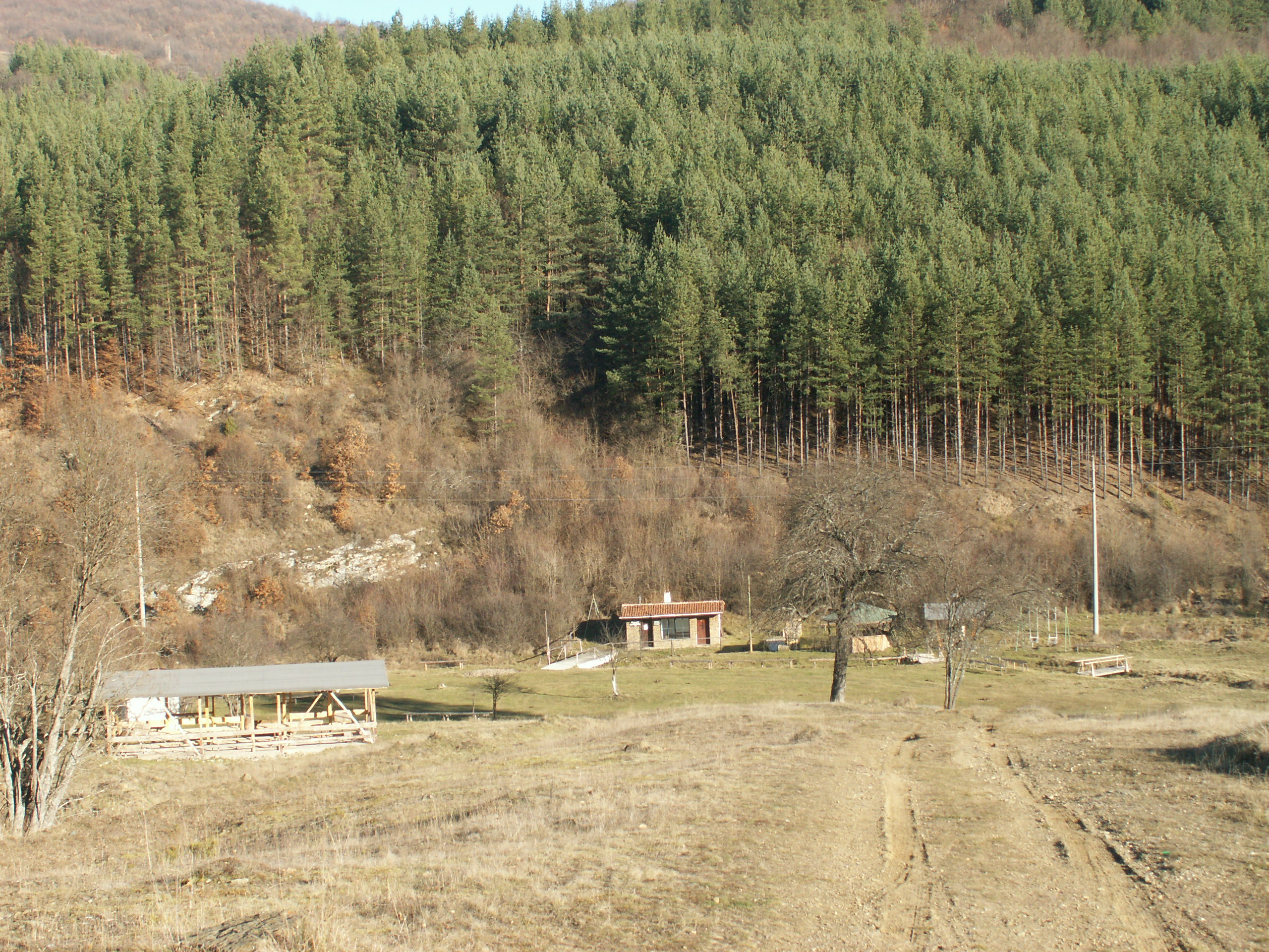 Chapel Saint Bogorodica